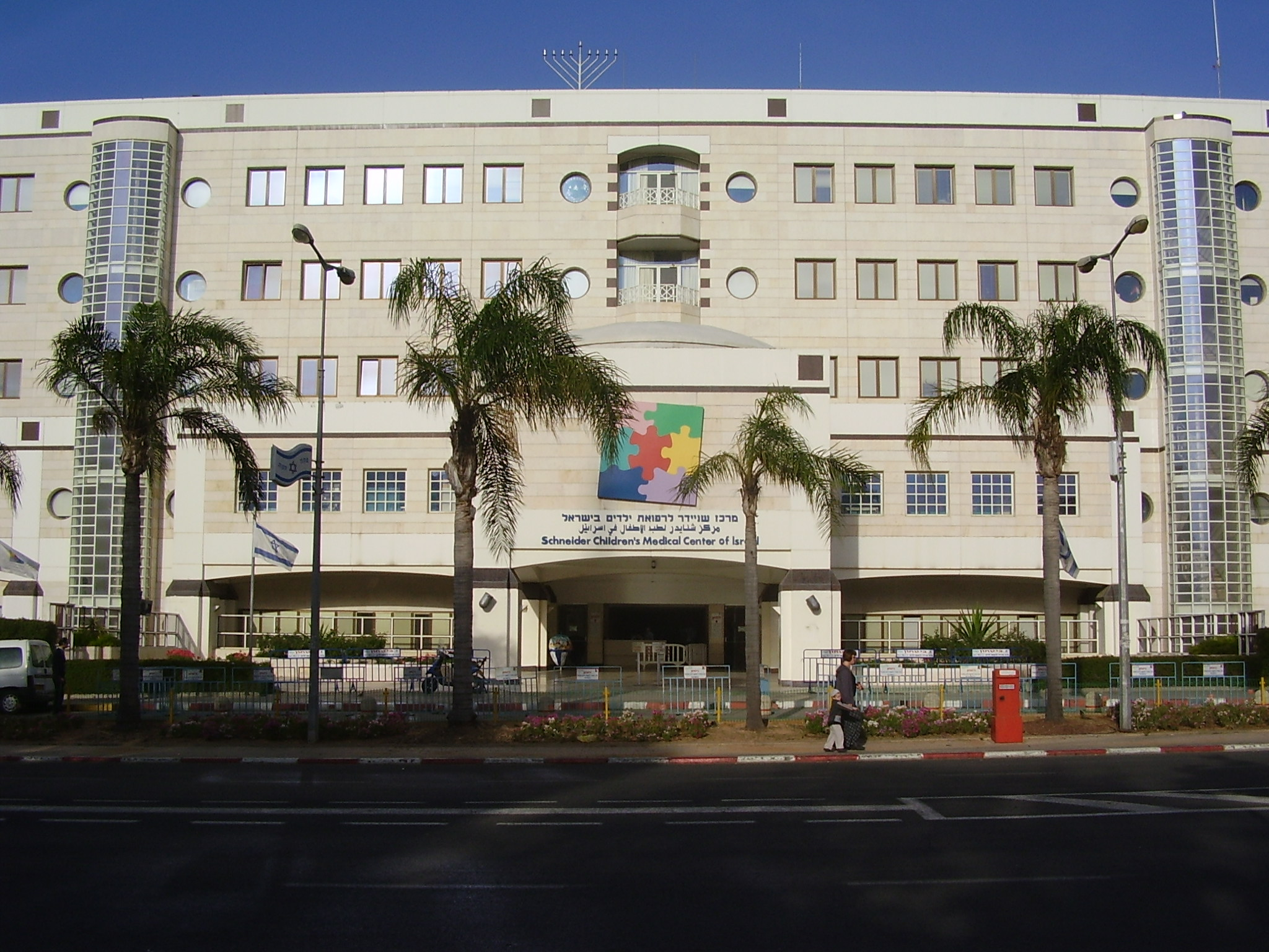 schneider children hospital in petakh tikva